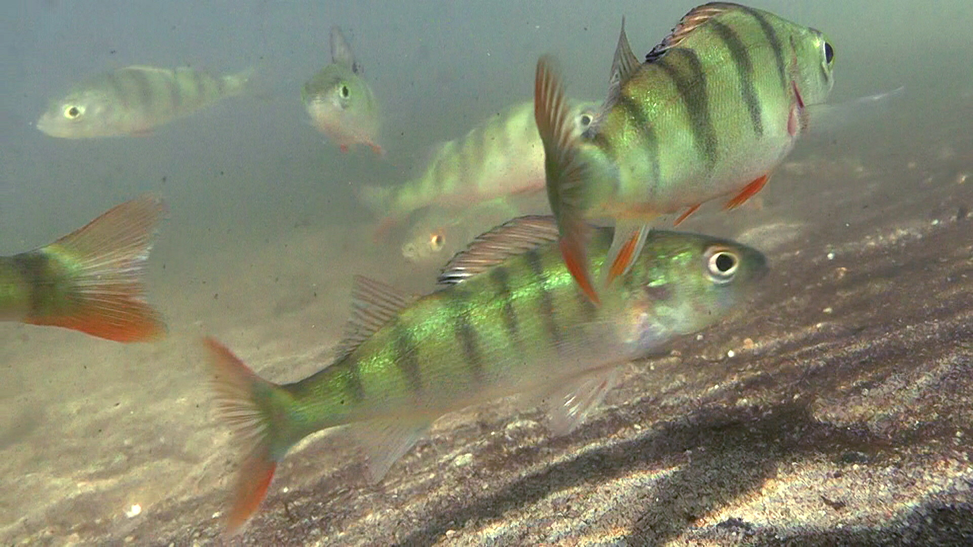 Young perch in the wild. Recorded in the Great Klobichsee in Brandenburg.